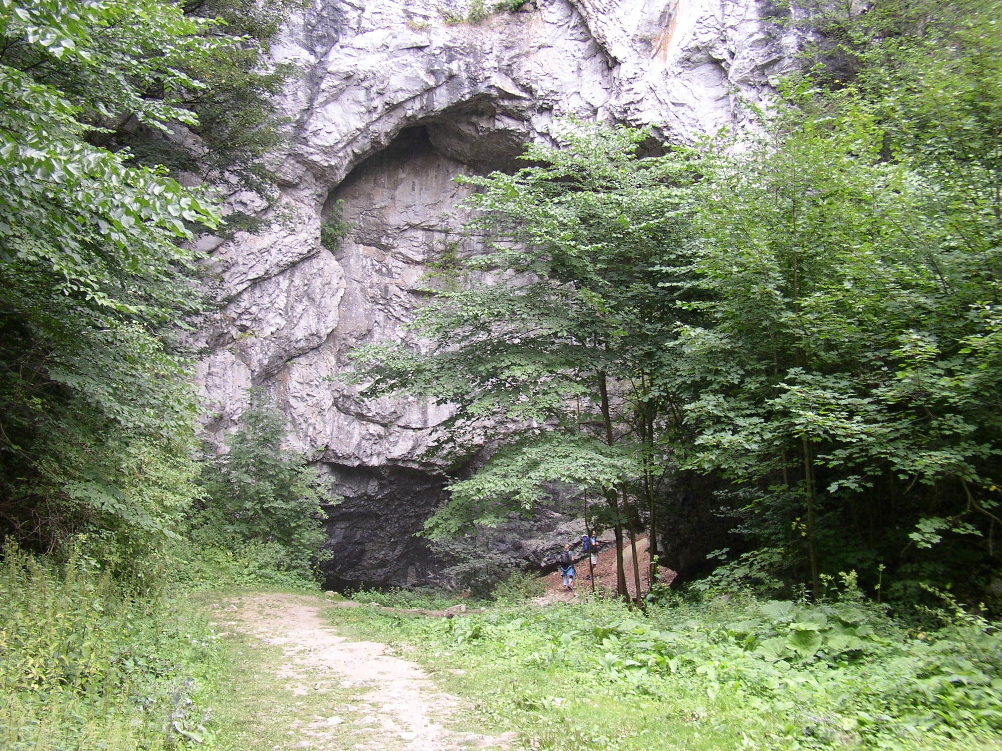 The entrance to Bull Rock Cave in Moravian Karst, Czech Republic.